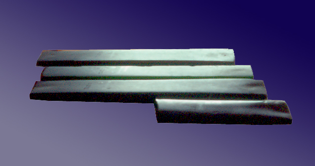 Sonorous stones from a lithophone from Sankarjang, Orissa. Some show use-wear